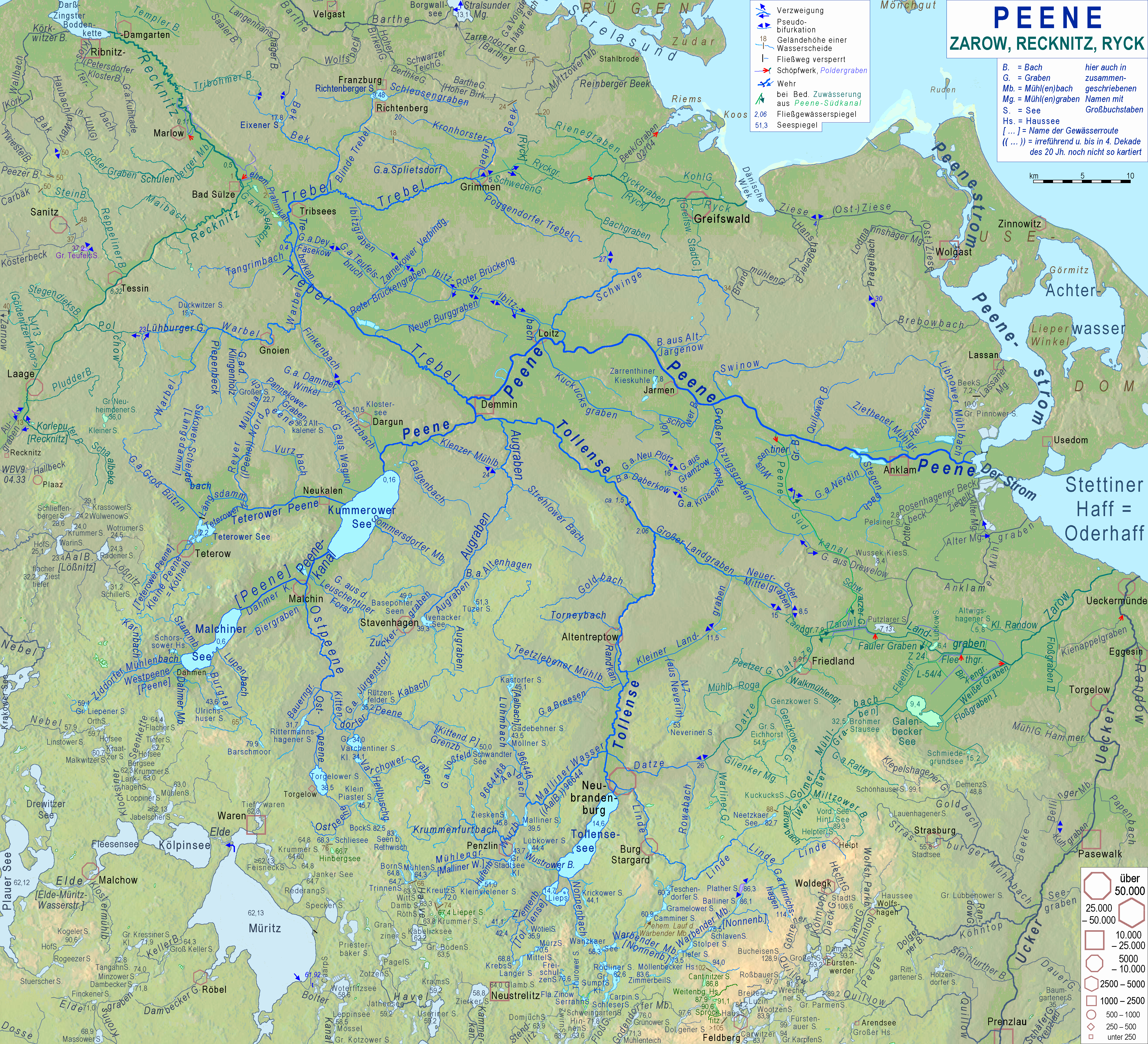 Map of the basins of the rivers Peene, Zarow, Recknitz and Ryck; without relief background. name differring from those written in topographic maps haved been collected from water specialists of the maintaining institutions. This map may be incomplete, and may contain errors. Don't rely solely on it for navigation.